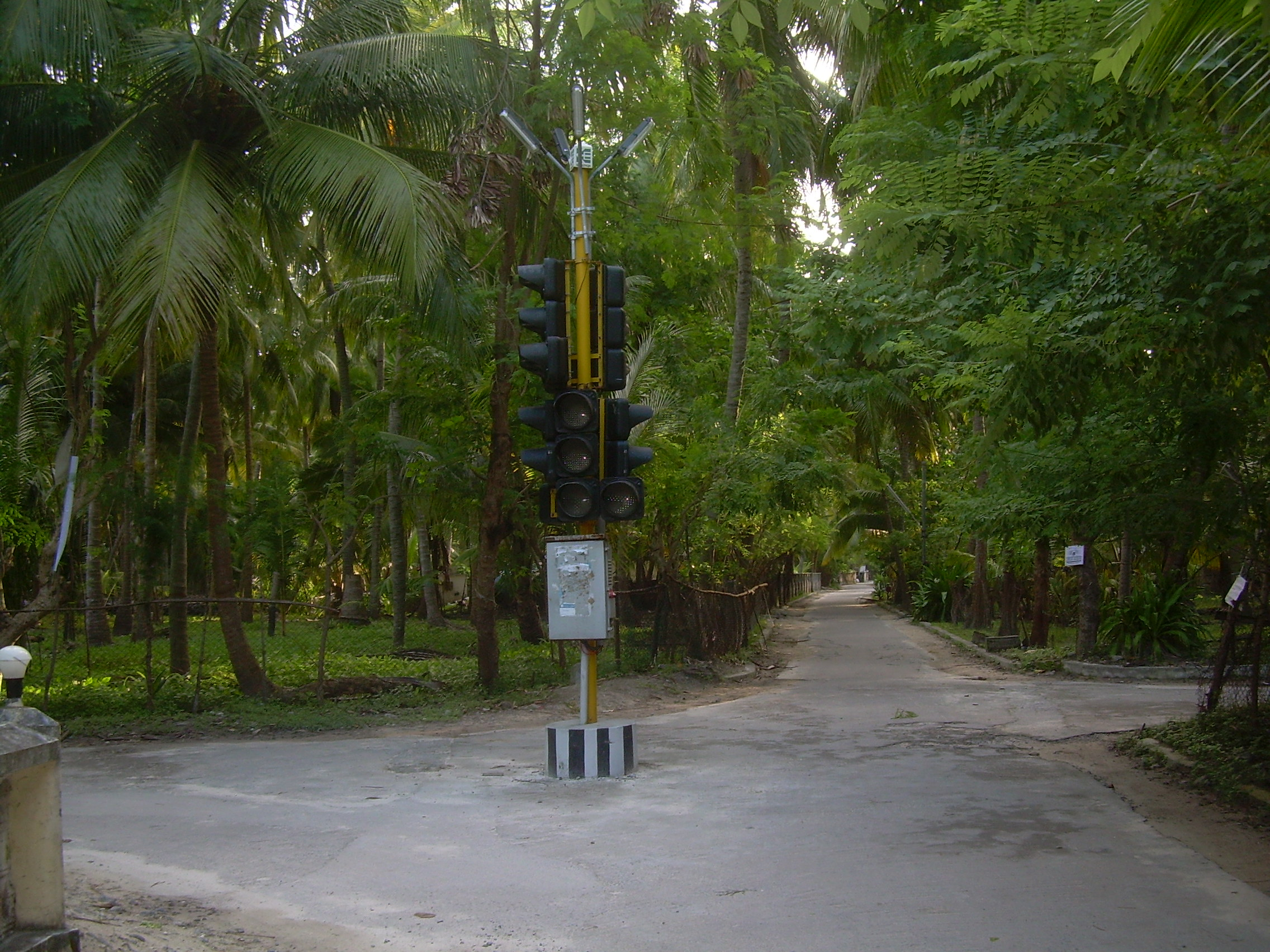 Early morning at a junction in the island of Kavaratti, Lakhshadweep